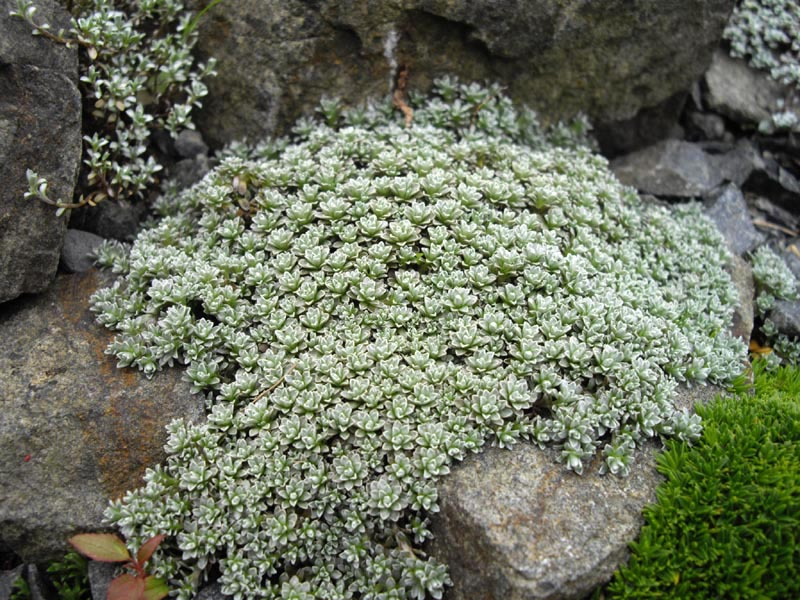 Raoulia mammillaris Hook.f. × Leucogenes grandiceps (Hook.f.) Beauverd